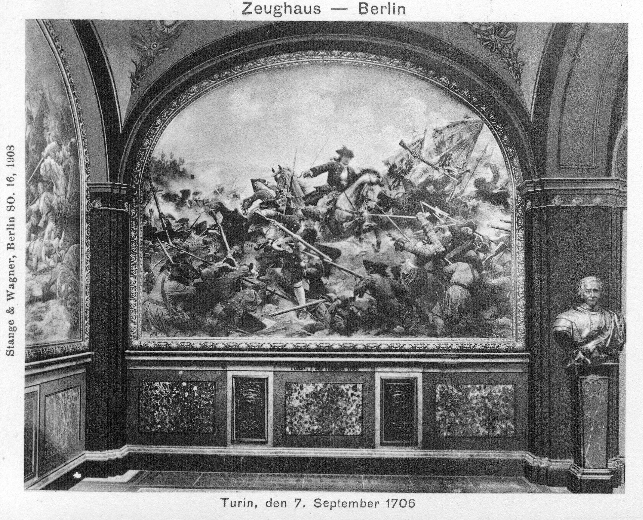 Ruhmeshalle Berlin, wallpainting by Hermann Knackfuß